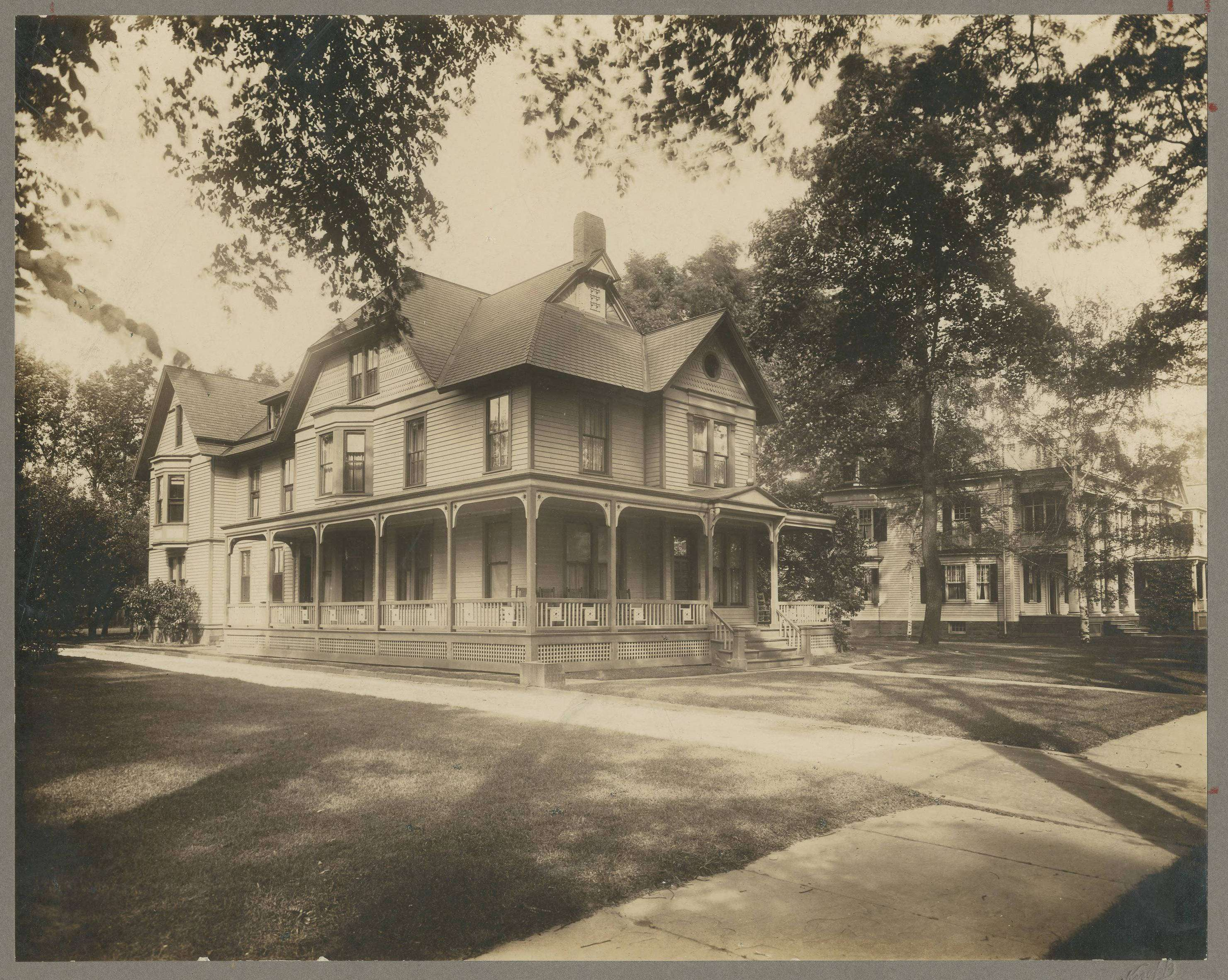 979 Madison Ave. in 1920, now known as Moran Hall.